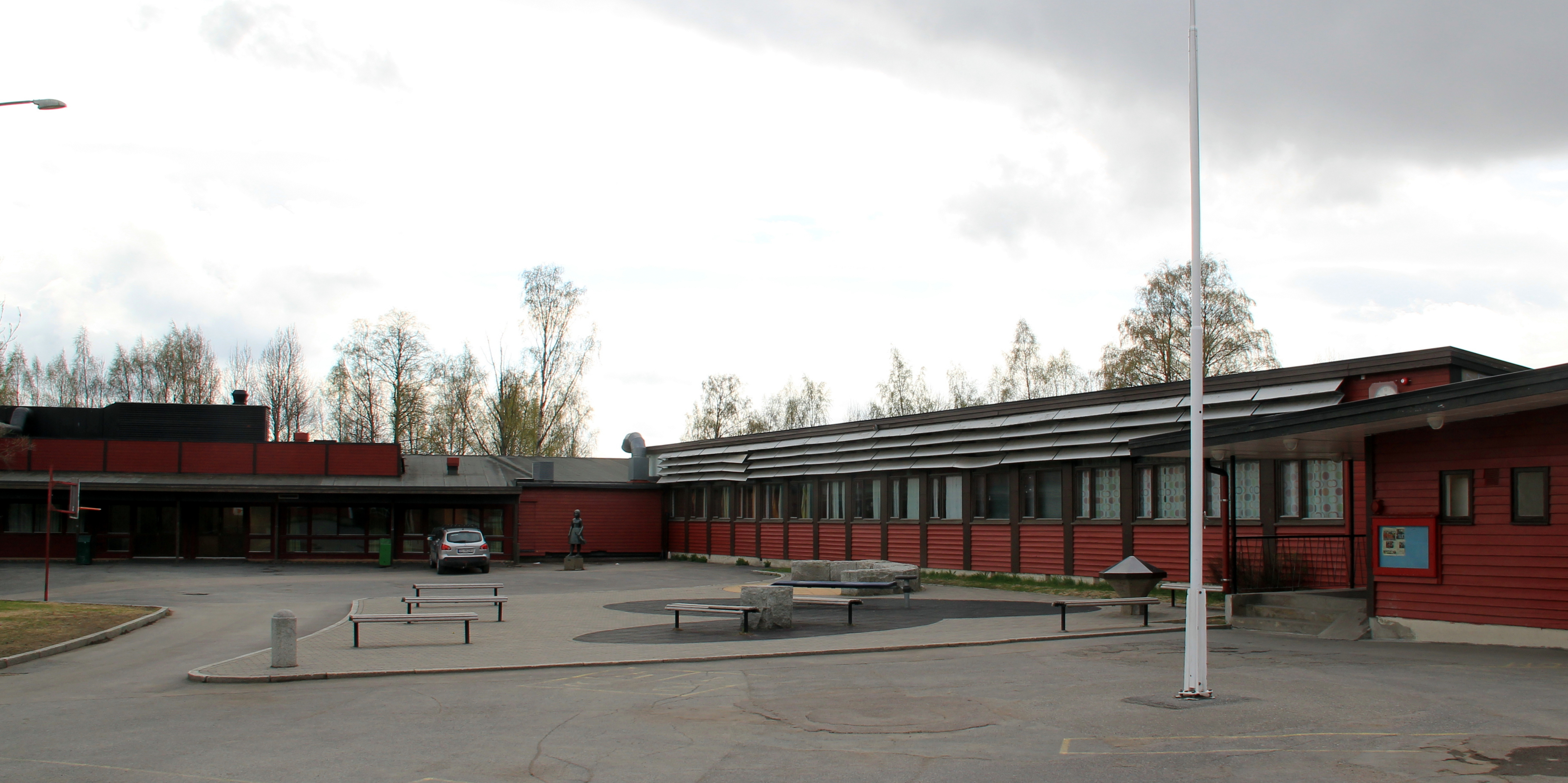 Veitvet skole, school, Oslo